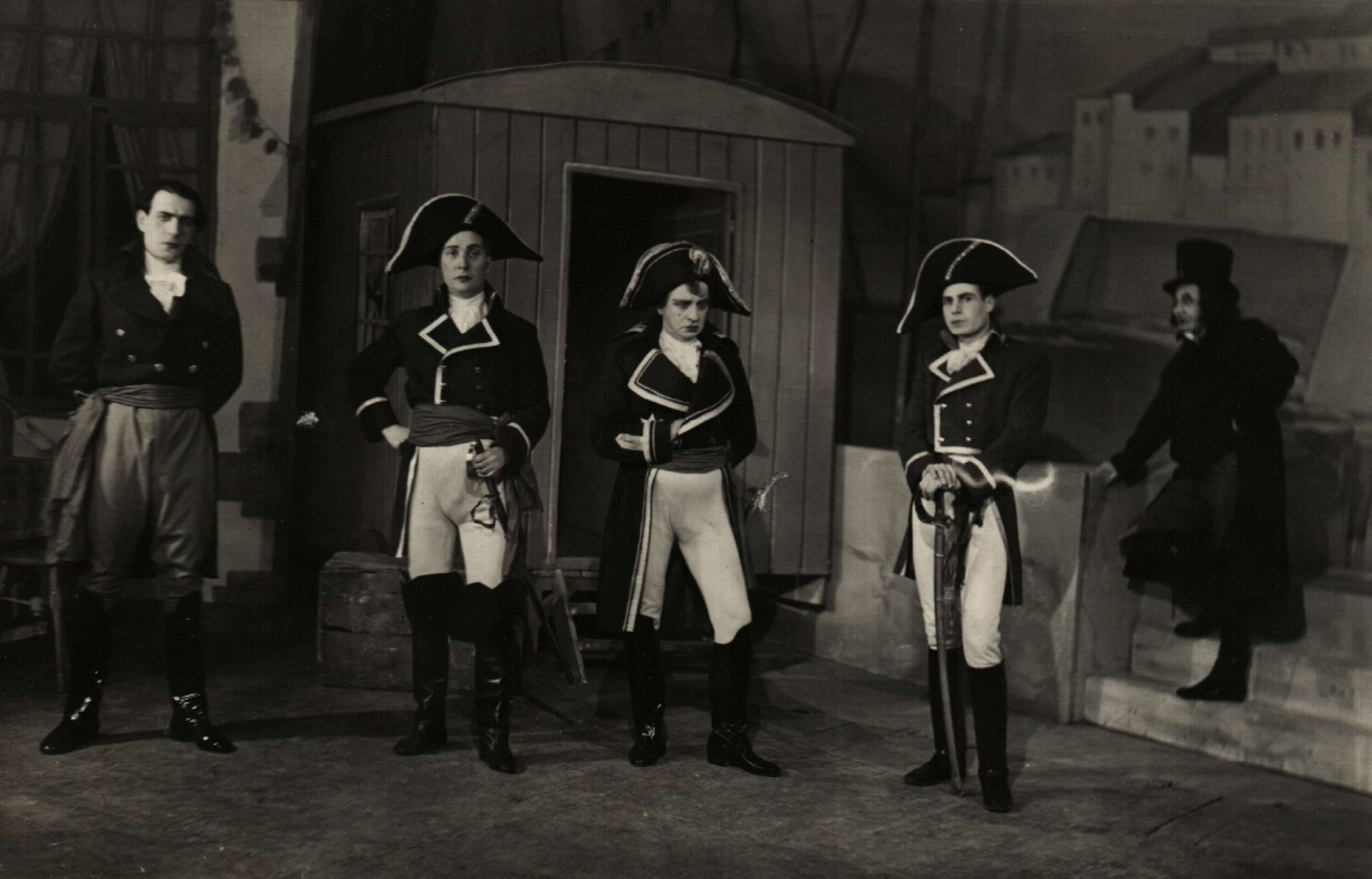 Angel Sladkarov with Kosta Raynov, Ivan Radev and Vasil Bakardzhiev.